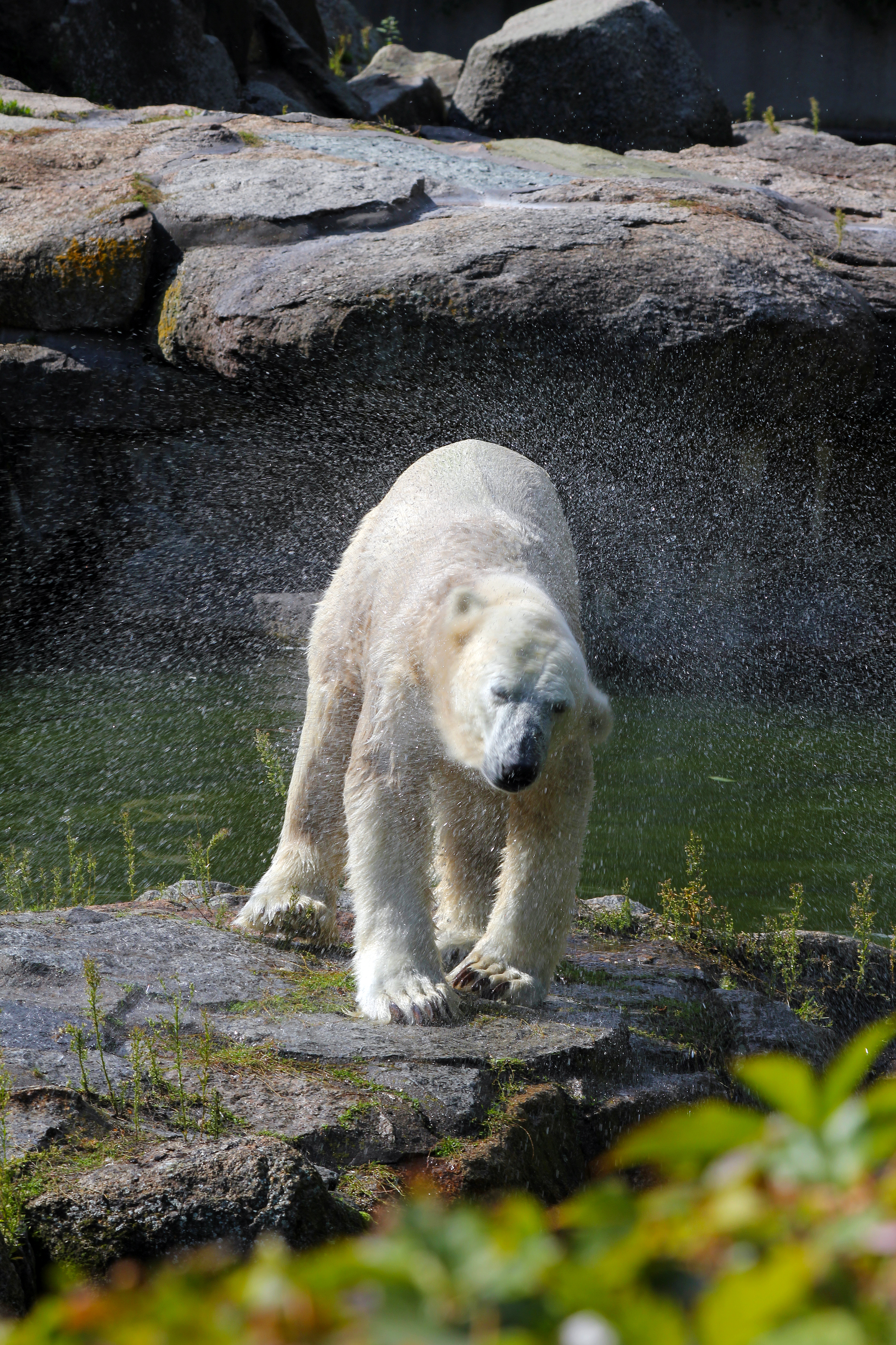 Polar bear "Knut" (Ursus maritimus) shaking off water after swimming.